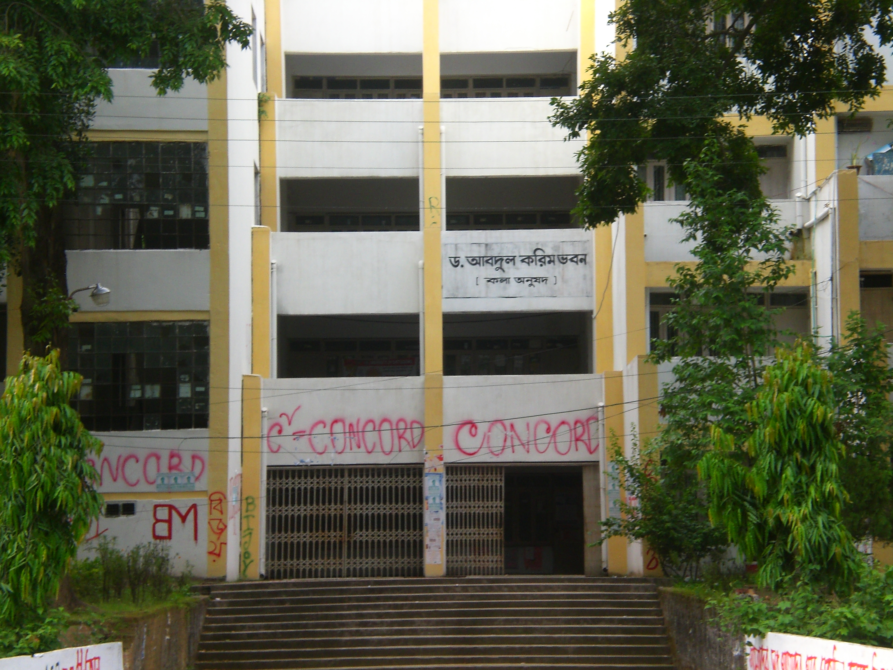 Arts Faculty at Chittagong University